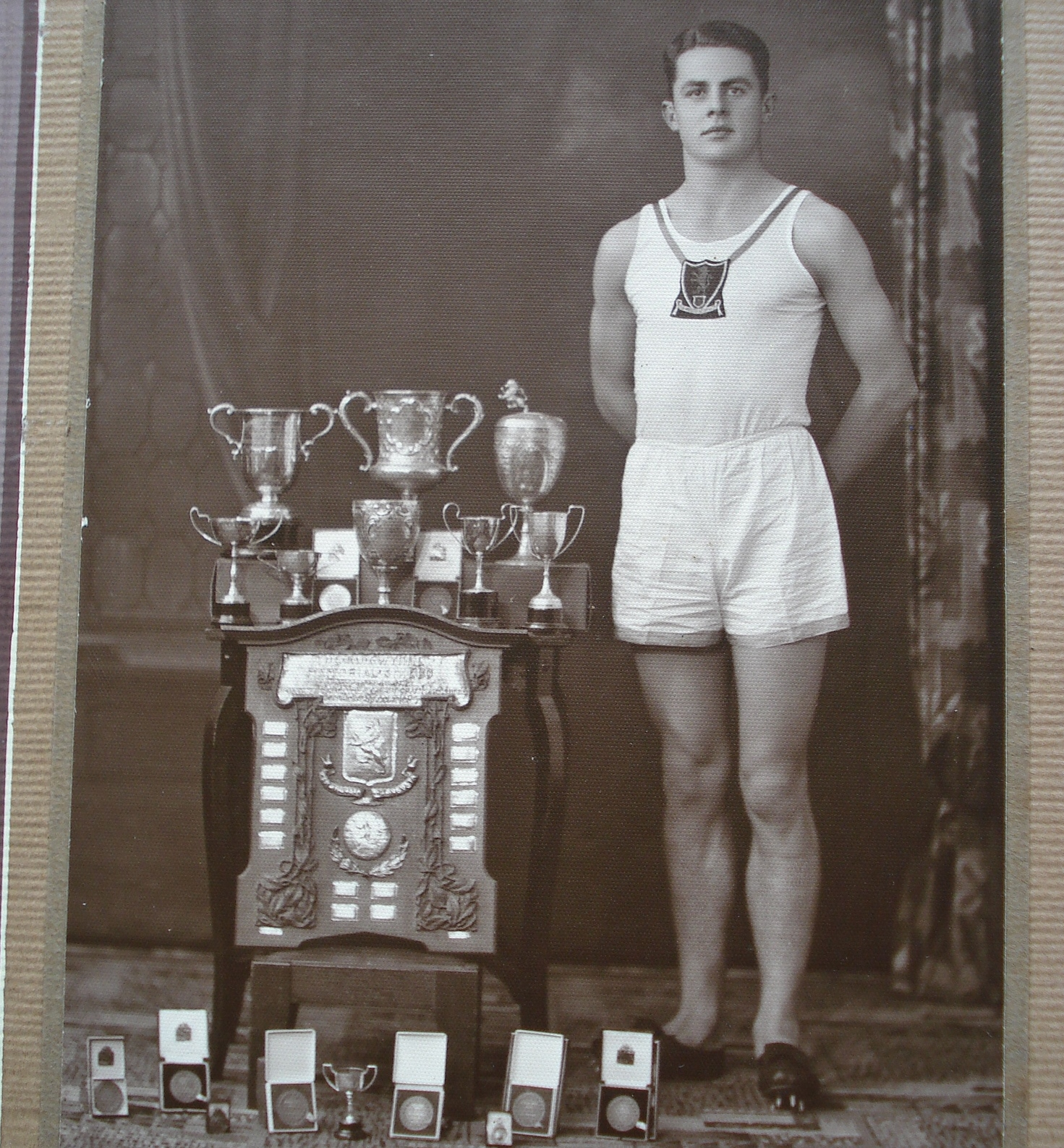 Alan Sayers' Trophies